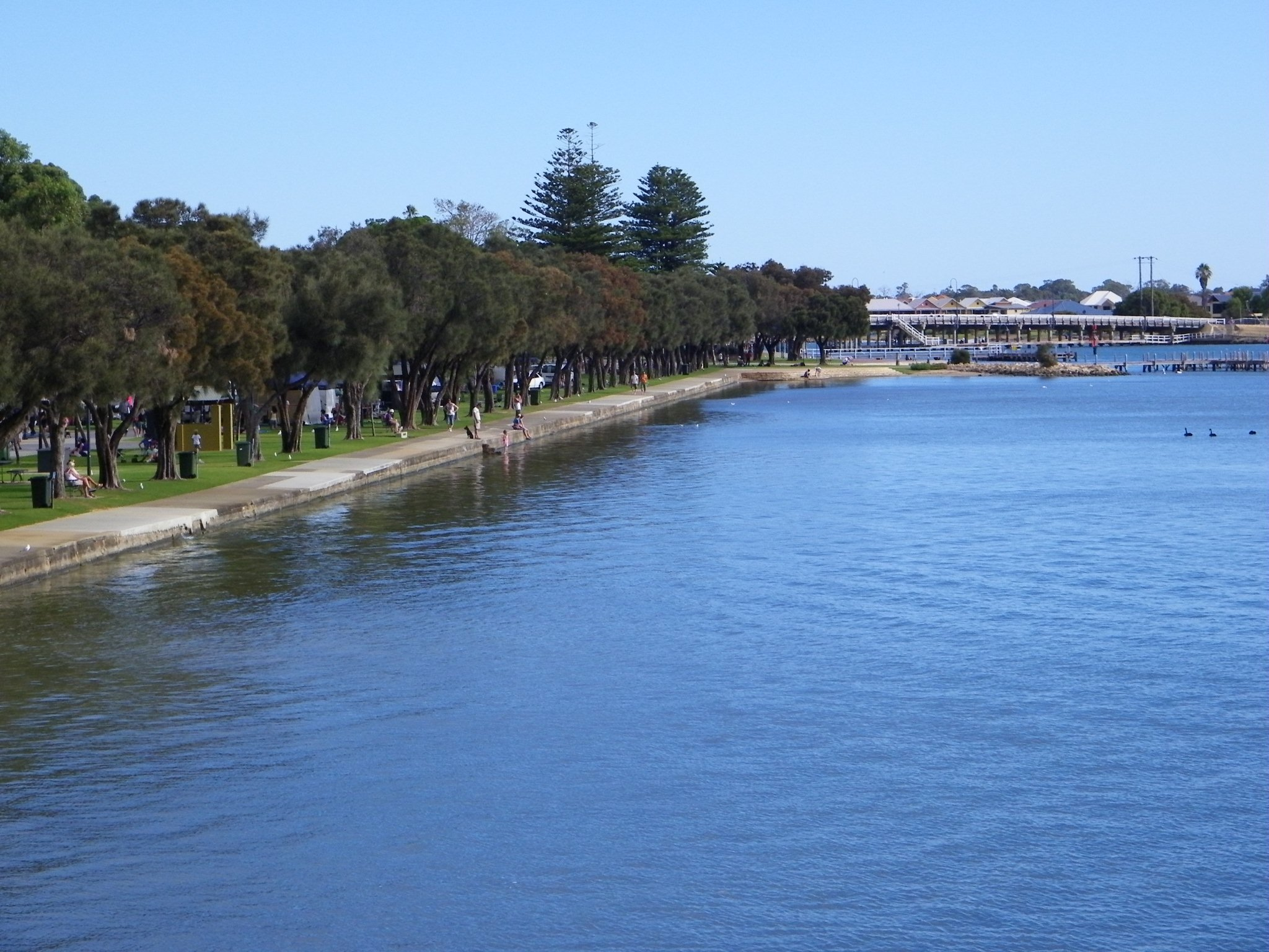 Mandurah Foreshore